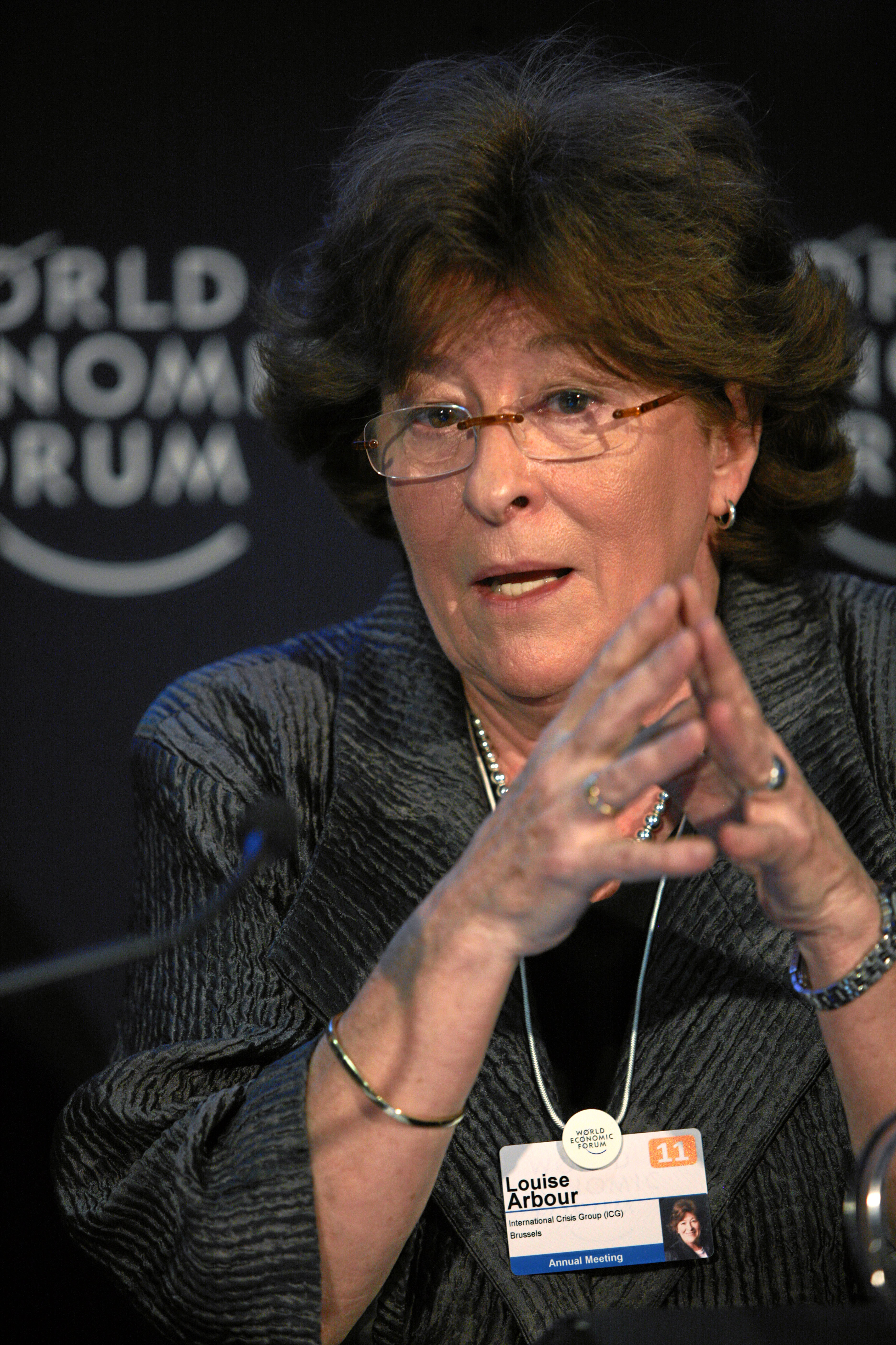 DAVOS/SWITZERLAND, 26JAN11 - Louise Arbour, President and Chief Executive Officer, International Crisis Group (ICG), Belgium; Global Agenda Council on Conflict Prevention gestures during the session 'The Security Agenda in 2011' at the Annual Meeting 2011 of the World Economic Forum in Davos, Switzerland, January 26, 2011. Copyright by World Economic Forum by Remy Steinegger